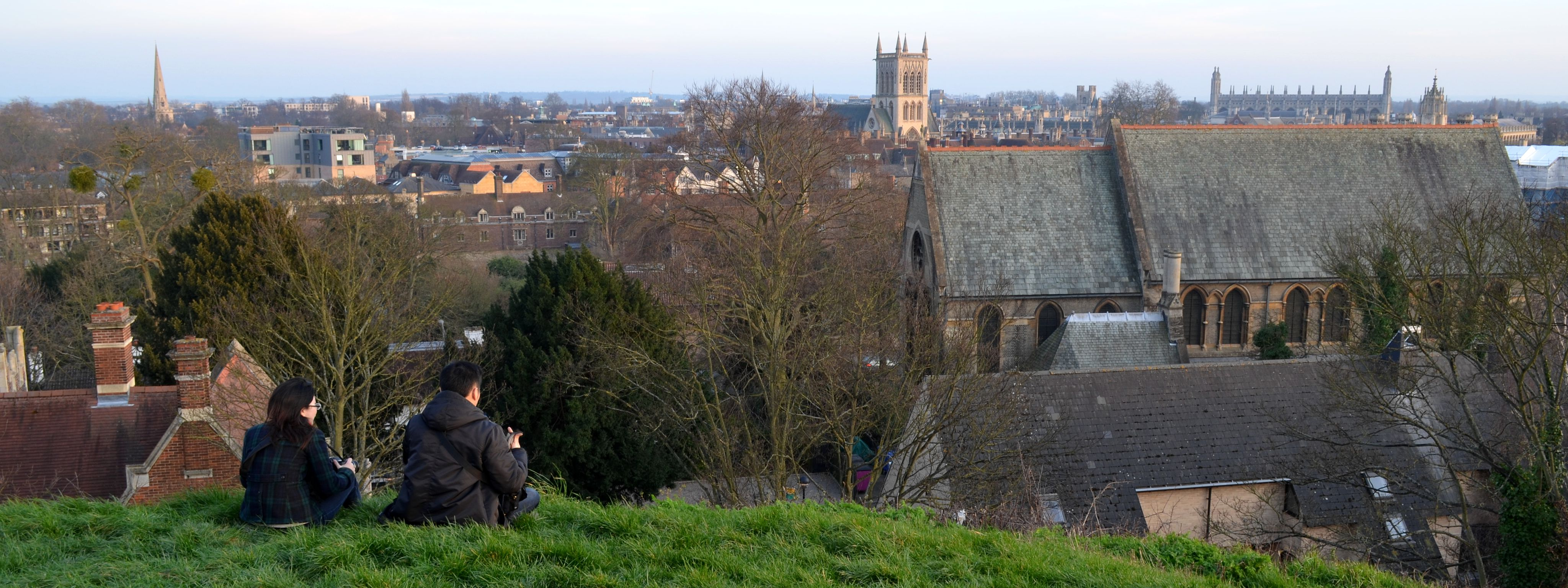 Cambridge skyline panorama from Castle Mound.